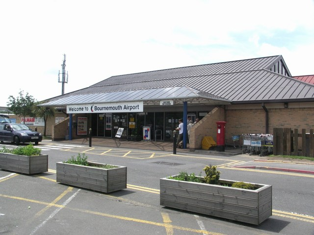 Entrance to Bournemouth Airport building.